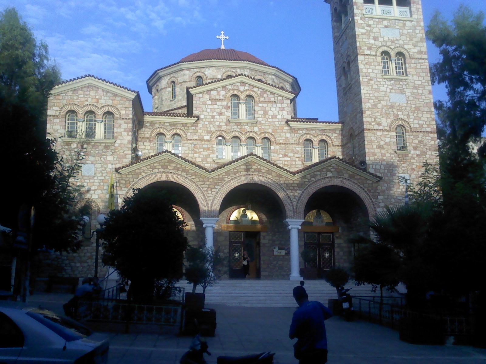 Church Agios Dimitrios Tampouria